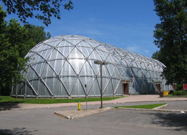 Ottawa's Belltown Dome hockey rink